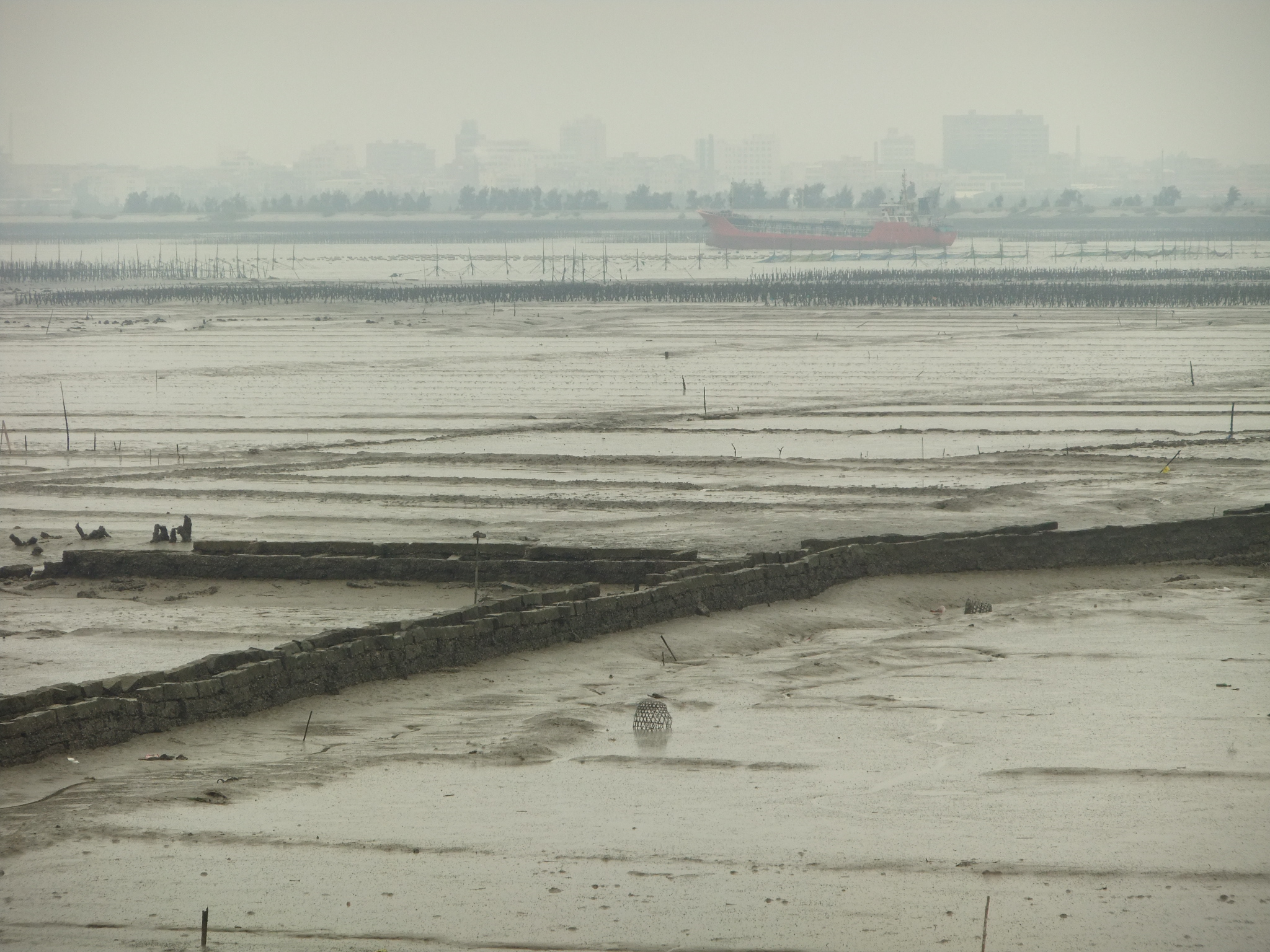 Anhai Bay is the estuary of the Shijing River. It separates Shijing Town (west side) from Dongshi town (east side). This is a tidal estuary; much of its bottom is exposed in low tide, and is used for something that looks like a form of oyster cultivation. These photos were taken from the west side of the bay, between Shijing and Shuitou; Dongshi Town's skyline can be seen in the background of some photos.